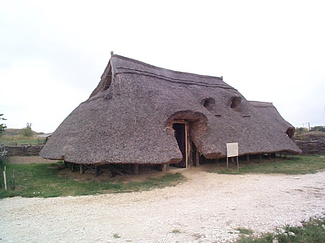 Prehistorical pit-house in Open air museum of Százhalombatta, Hungary